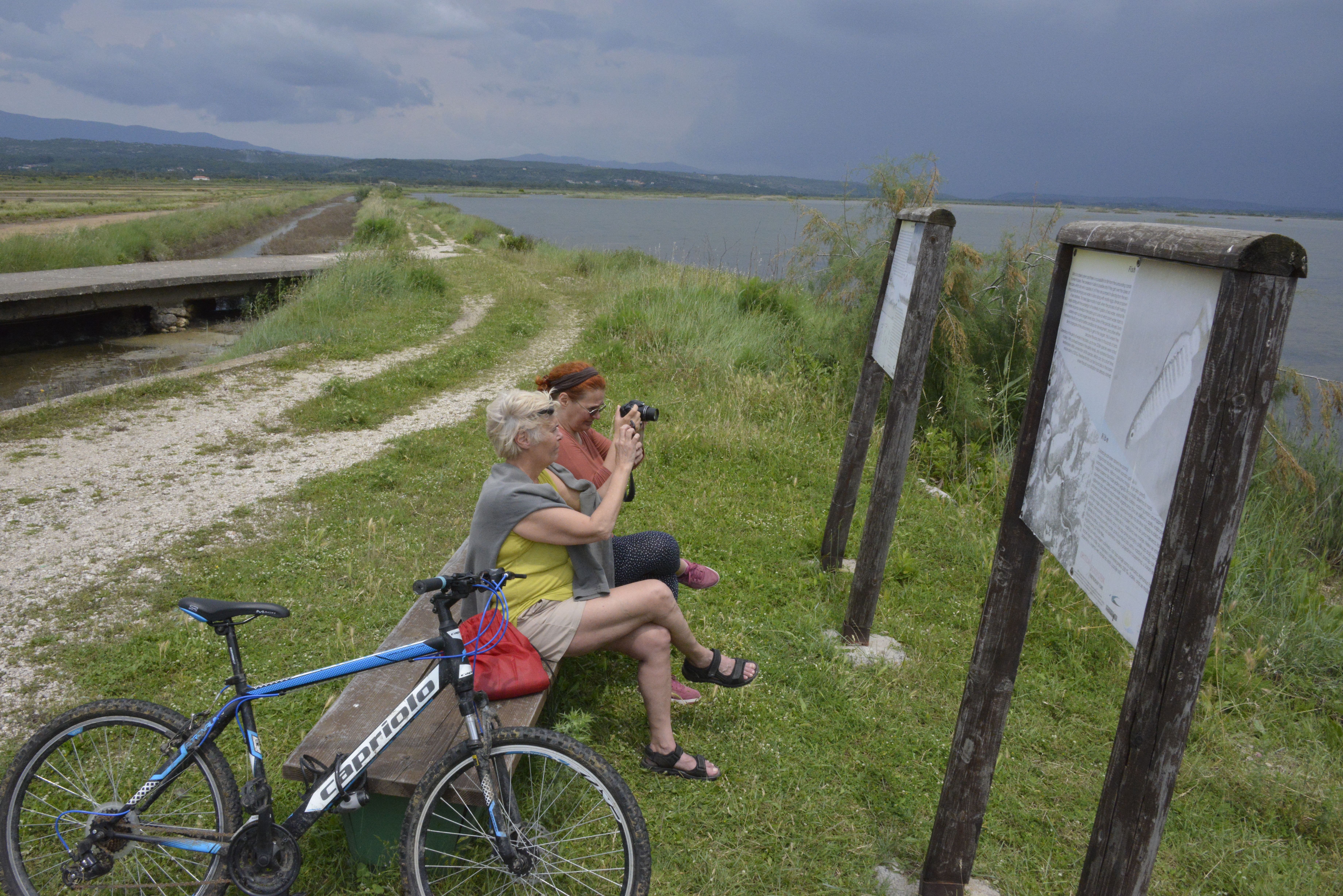 Ulcinj Salinas, summer 2019